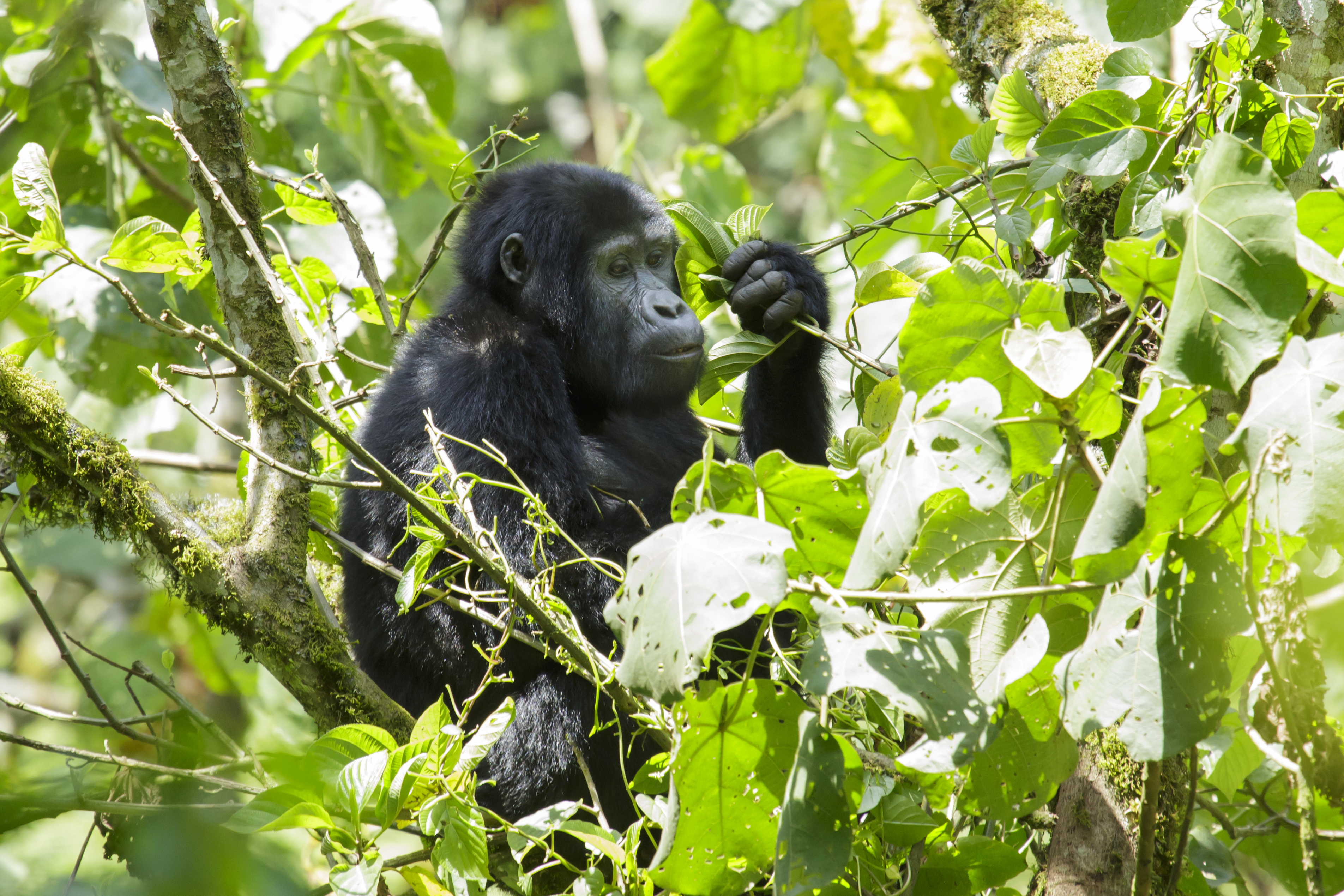 The image was taken during 5 weeks of traveling on an overlander camping tour through east and south Africa in 2015